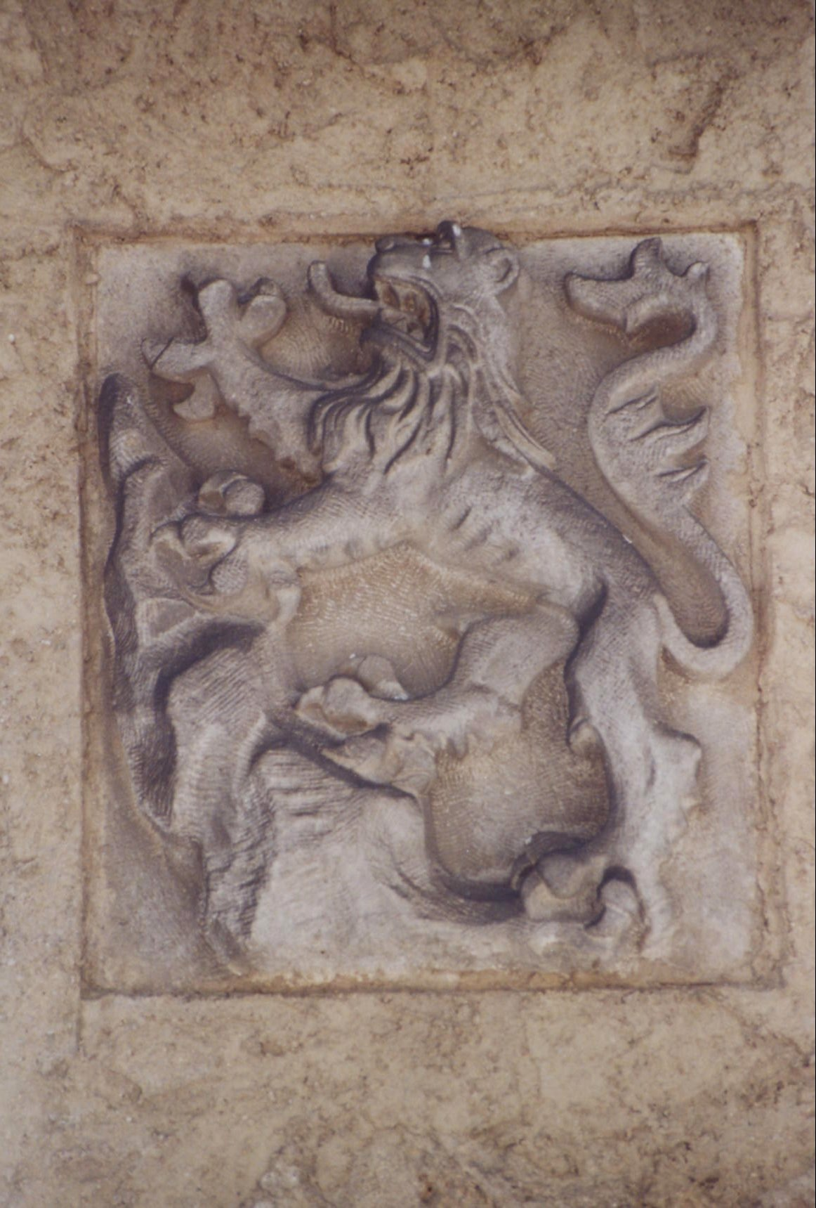 This image shows the coat of arms of Lauenstein near Geising in Saxony.